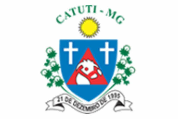 Coat of arms of the city of Catuti, Minas Gerais, Brazil.